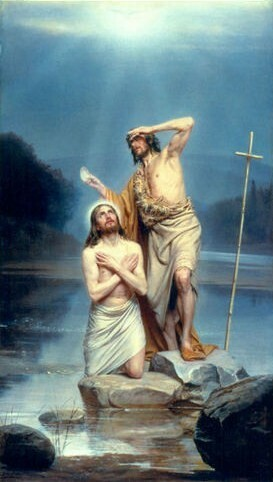 The Baptism of Christ